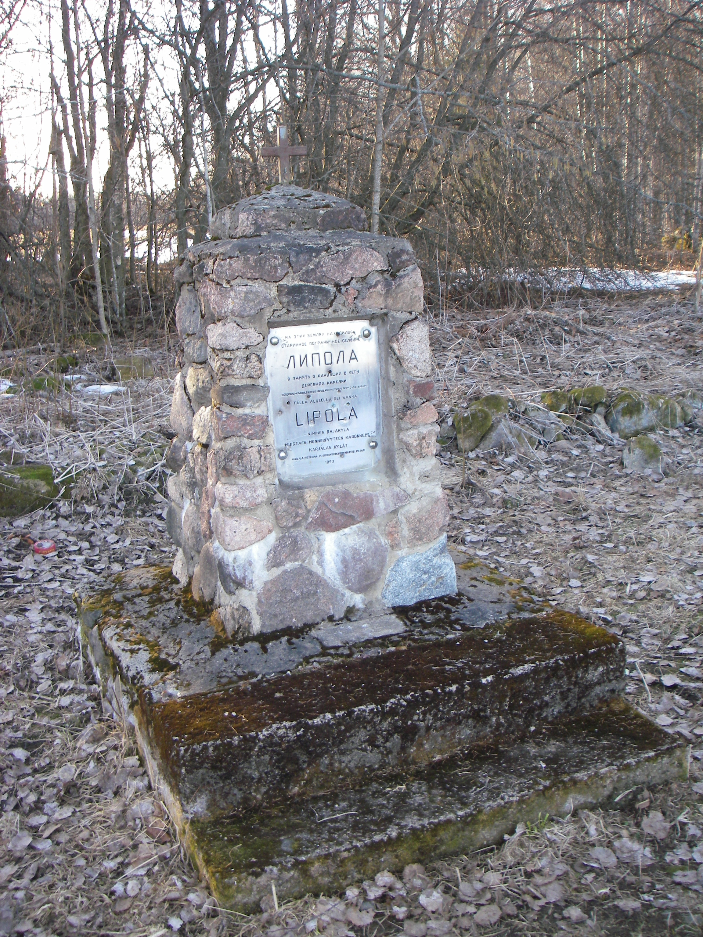 Monument at the place of former finnish village Lipola